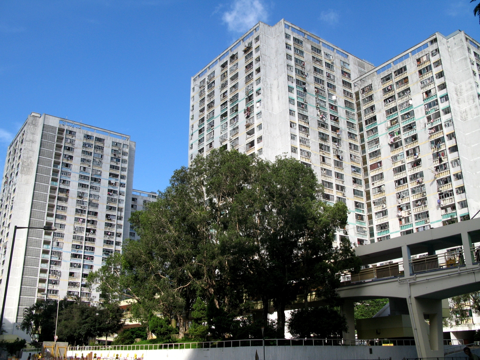 HK Shatin Wo Che Estate overview